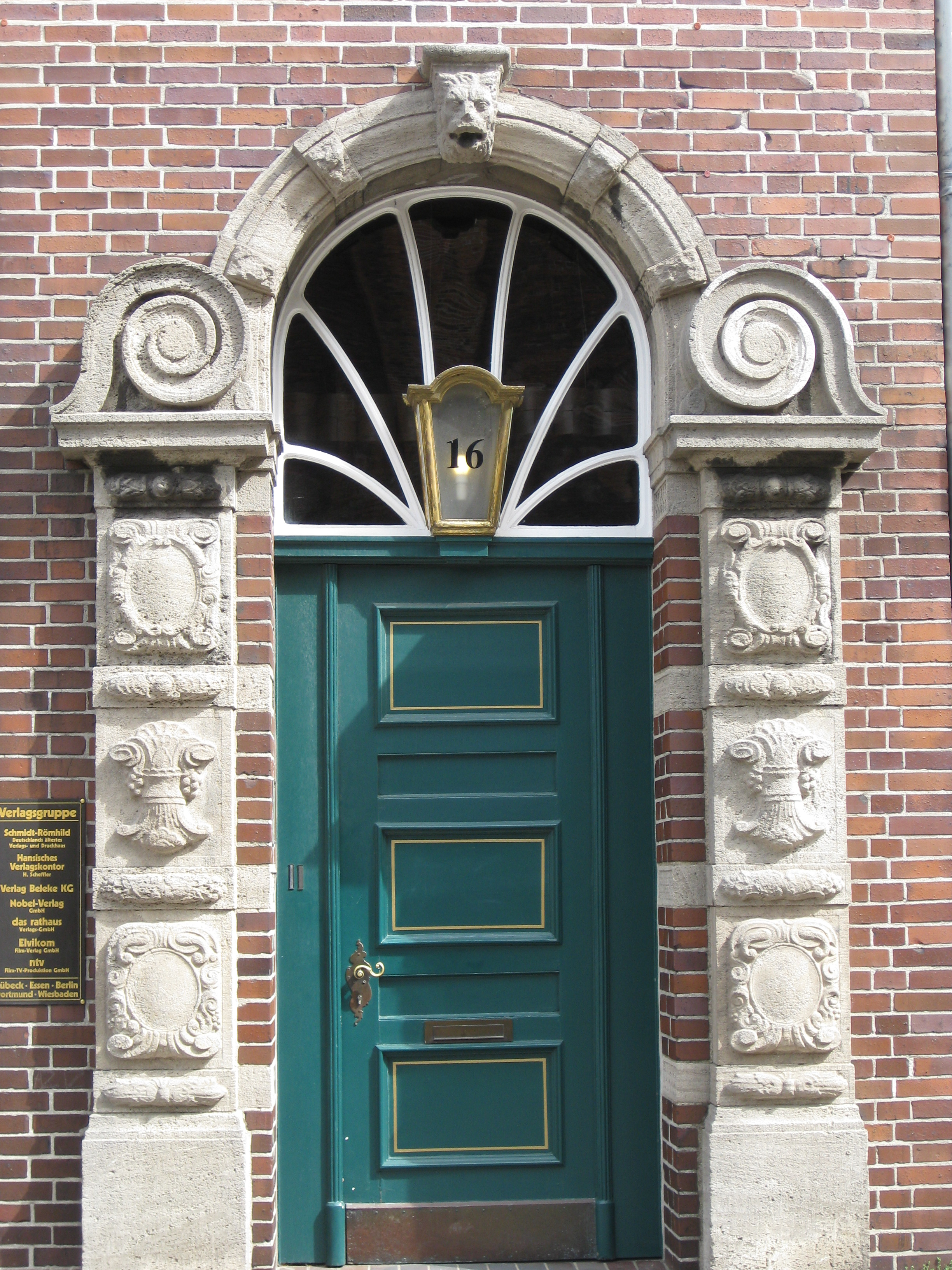 Portal in Lübeck, Mengstraße 16.